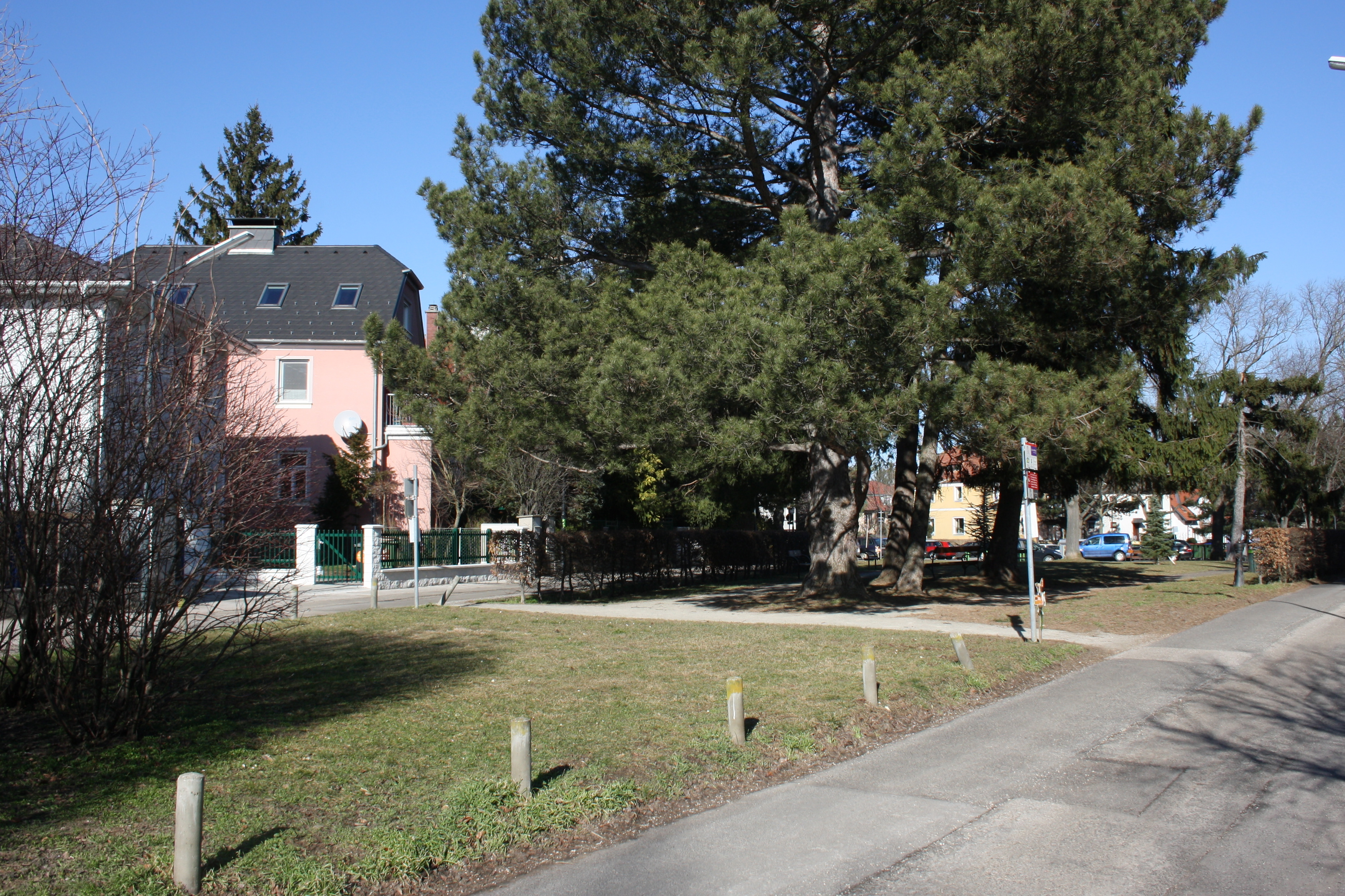 Sillerplatz, SAT-Siedlung, Vienna.